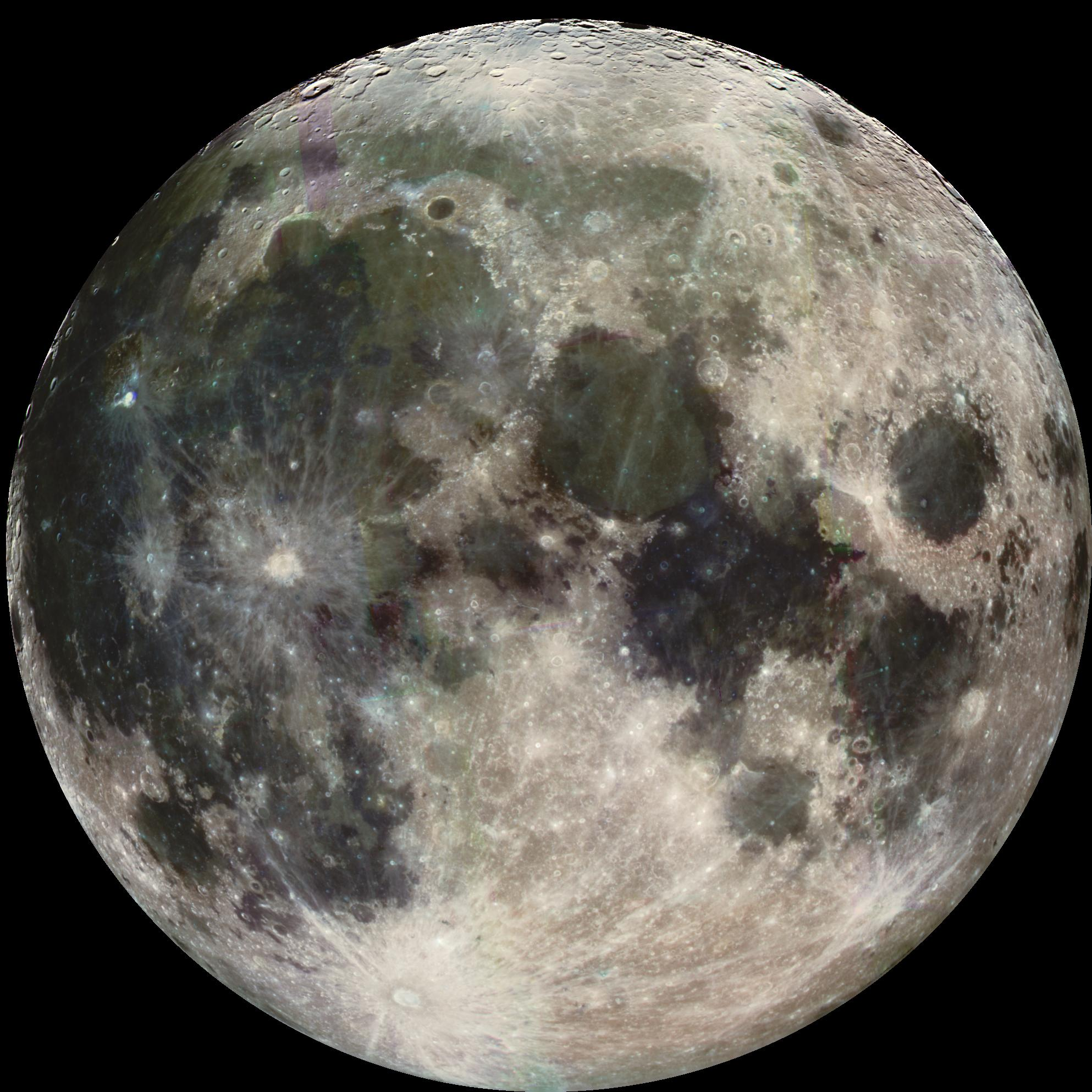 A photograph of the full moon, from catalog, specifically jpeg; Original Caption Released with Image: During its flight, the Galileo spacecraft returned images of the Moon. The Galileo spacecraft took these images on December 7, 1992 on its way to explore the Jupiter system in 1995-97. The distinct bright ray crater at the bottom of the image is the Tycho impact basin. The dark areas are lava rock filled impact basins: Oceanus Procellarum (on the left), Mare Imbrium (center left), Mare Serenitatis and Mare Tranquillitatis (center), and Mare Crisium (near the right edge). This picture contains images through the Violet, 756 nm, 968 nm filters. The color is 'enhanced' in the sense that the CCD camera is sensitive to near infrared wavelengths of light beyond human vision. The Galileo project is managed for NASA's Office of Space Science by the Jet Propulsion Laboratory.